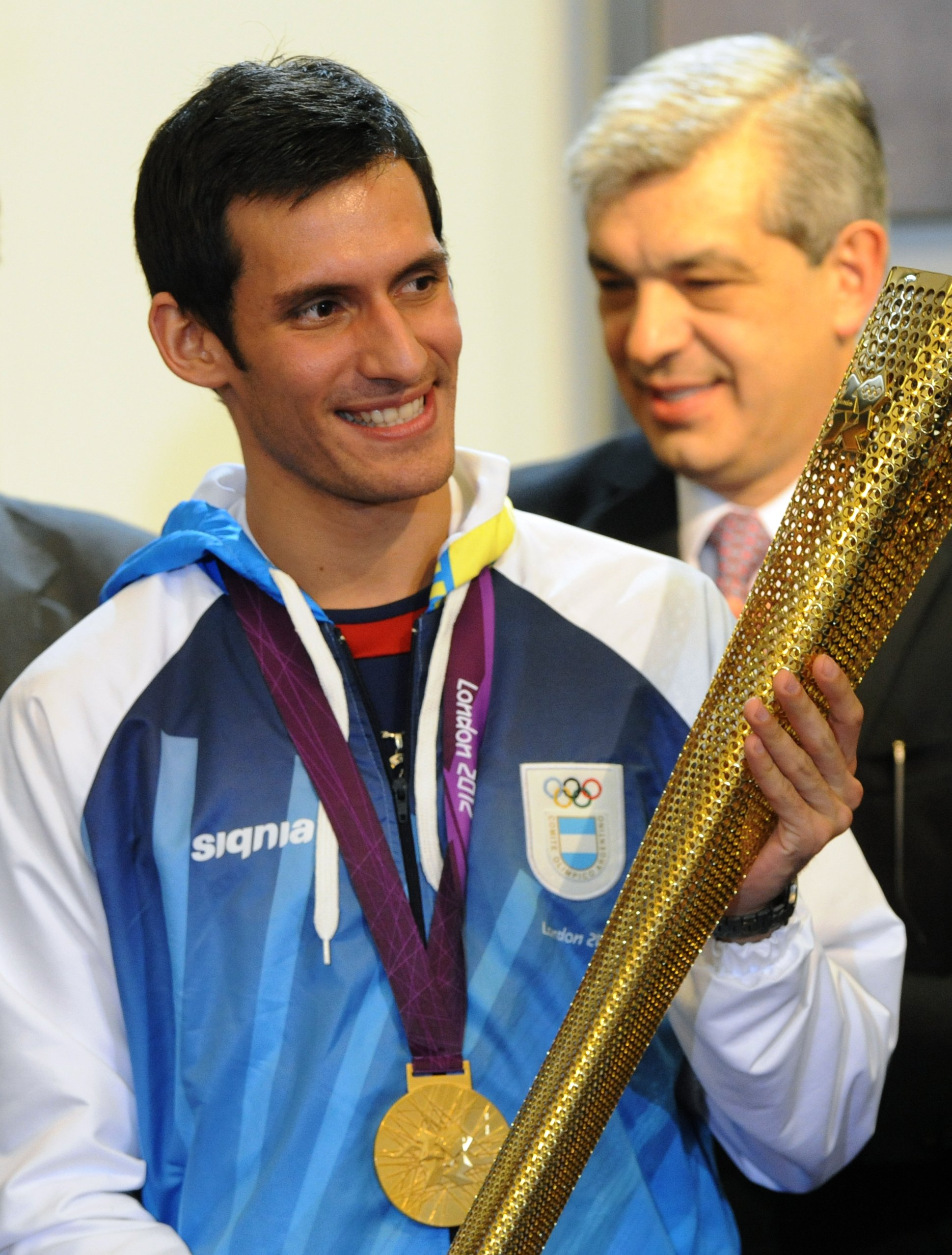 Sebastian Crismanich (Argentina), gold medal at Olympics 2012. Taekwondo.